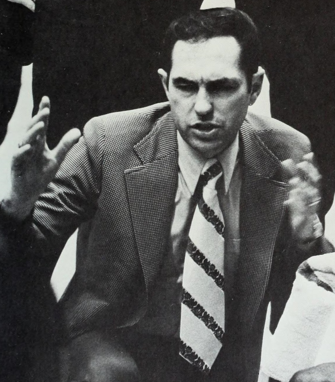 In an undated photo from the 1971 yearbook, Creighton University head basketball coach and athletic director Eddie Sutton instructs his team during a game.